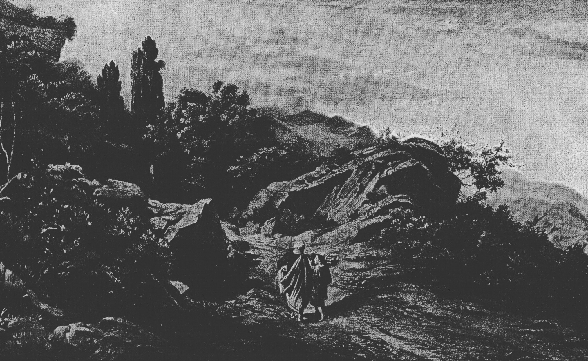 Abraham climbs Mount Moriah, as in Genesis 22:2, by Schirmer, illustration from The Bible and Its Story Taught by One Thousand Picture Lessons. Edited by Charles F. Horne and Julius A. Bewer. 1908.